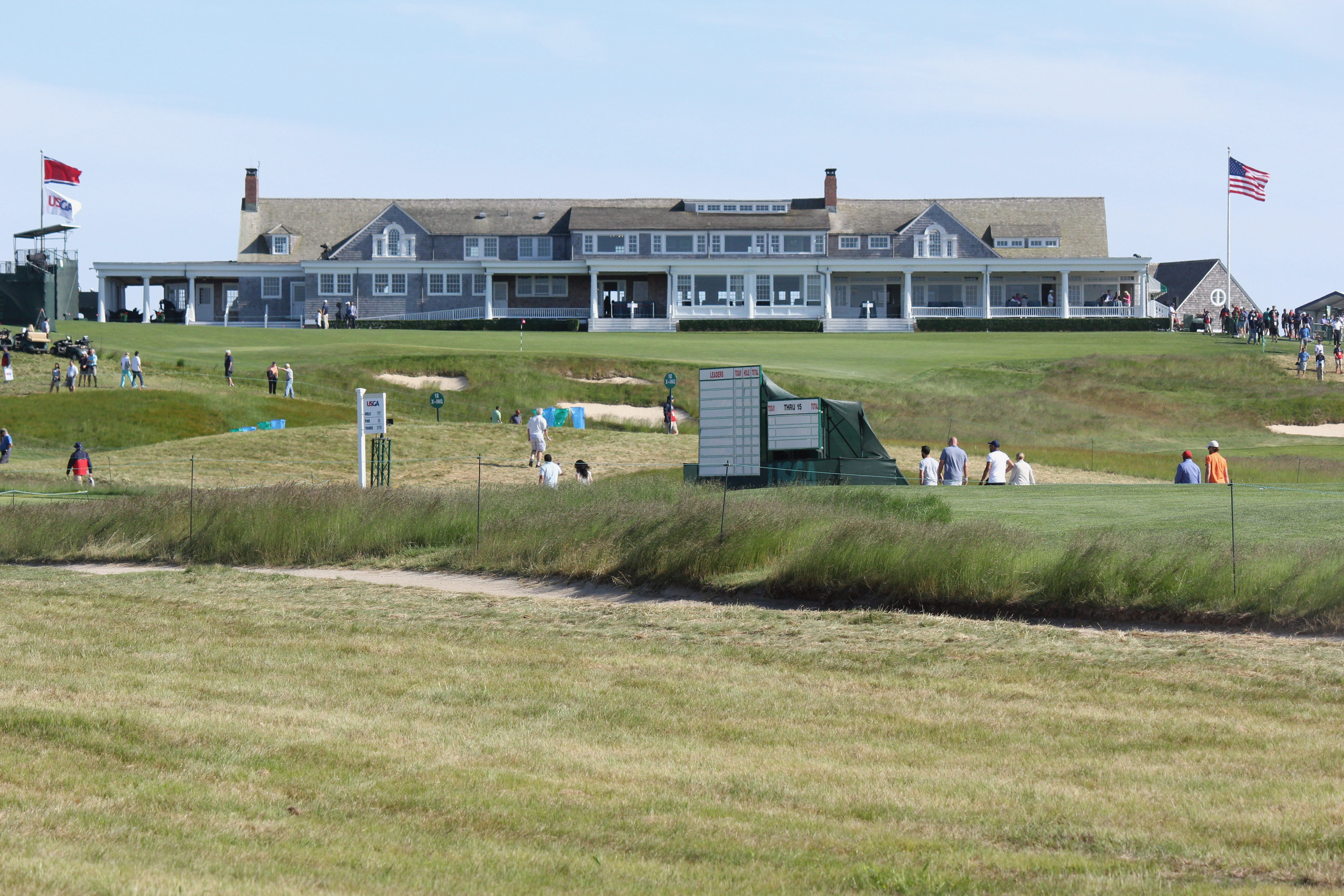 Shinnecock Hills Golf Club at the 2018 US Open